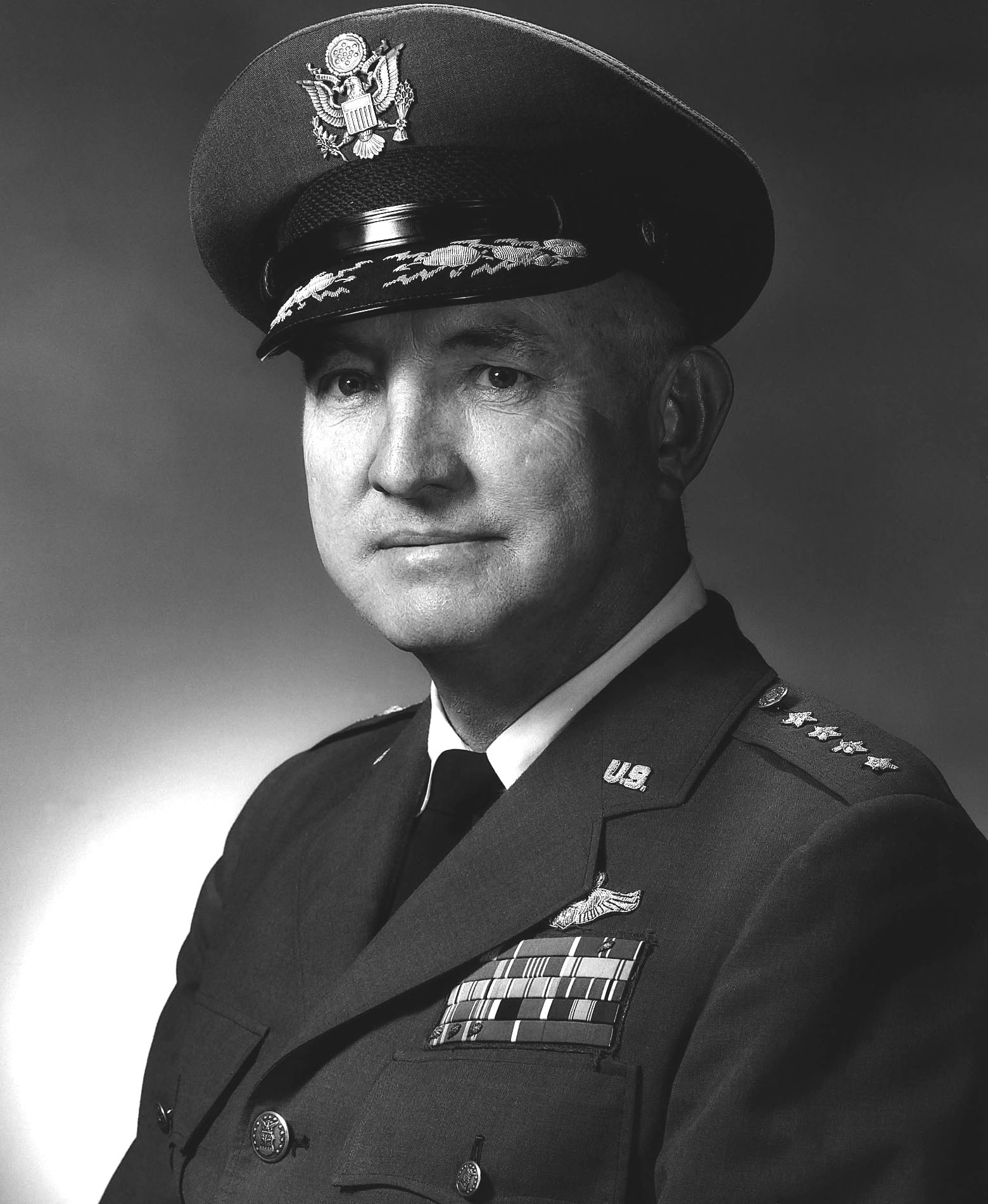 Mark Edward Bradley in his official Air Force image